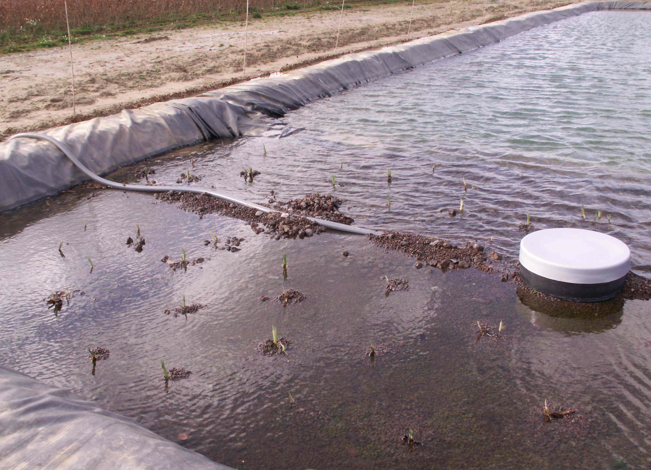 A constantly submerged lavafilter, used frequently in agricultural companies to allow a constant and pure water source for irrigation. The lavastone mass with waterpurifying-plants (Iris pseudacorus) is correctly dimensioned at 1/4th of the water mass.